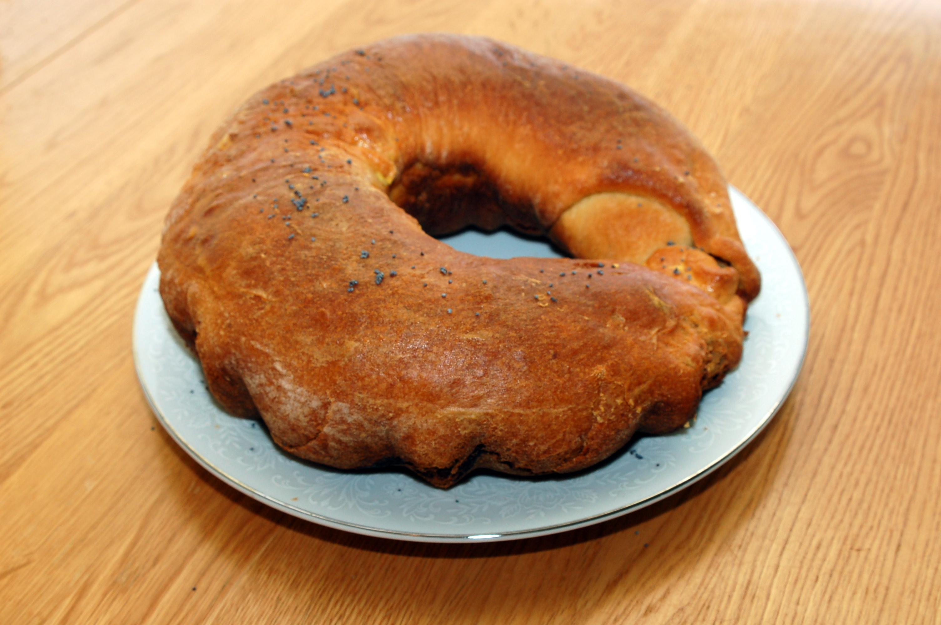 Polish Kolacz